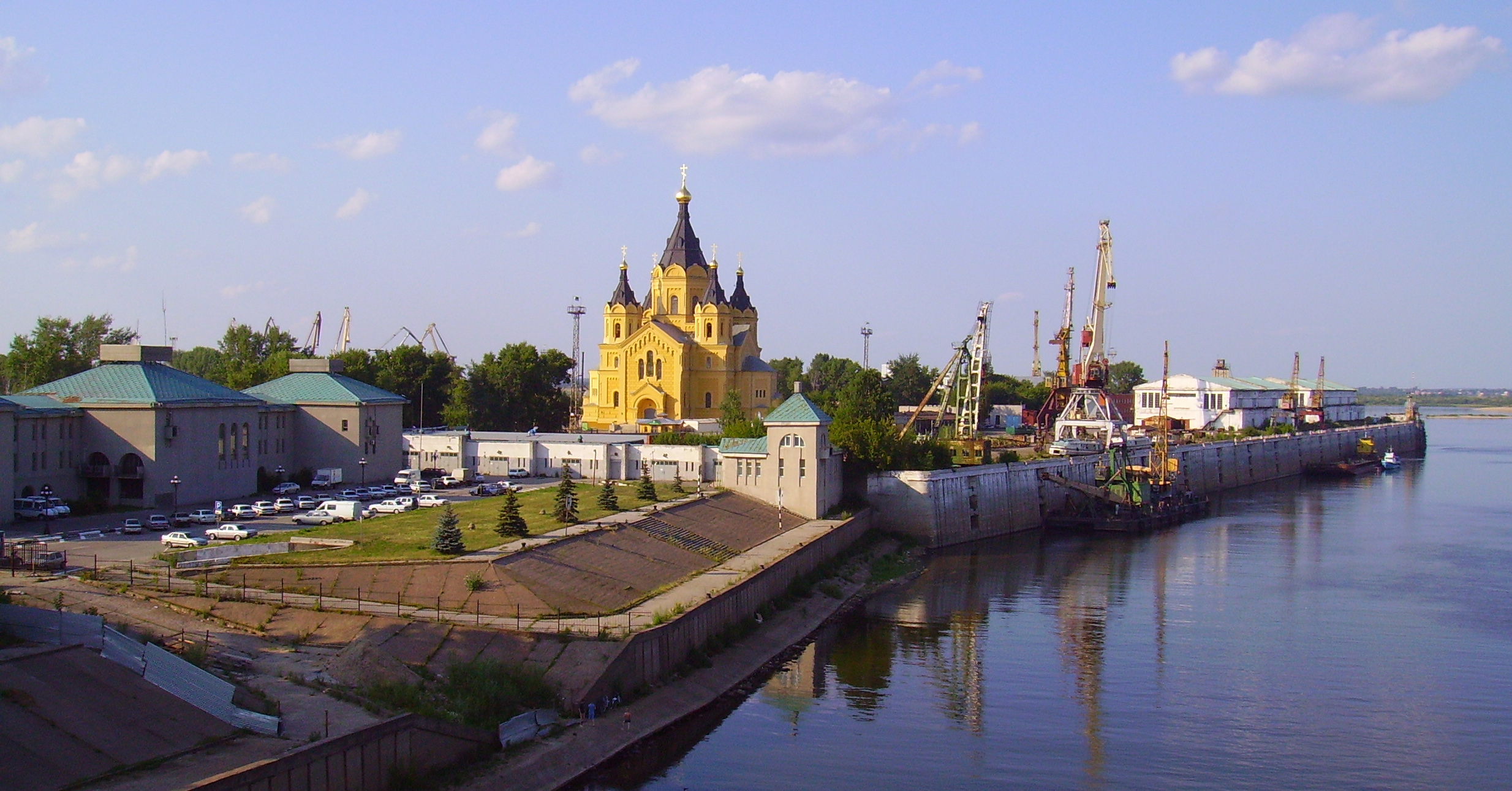 Alexander Nevsky Cathedral at Strelka